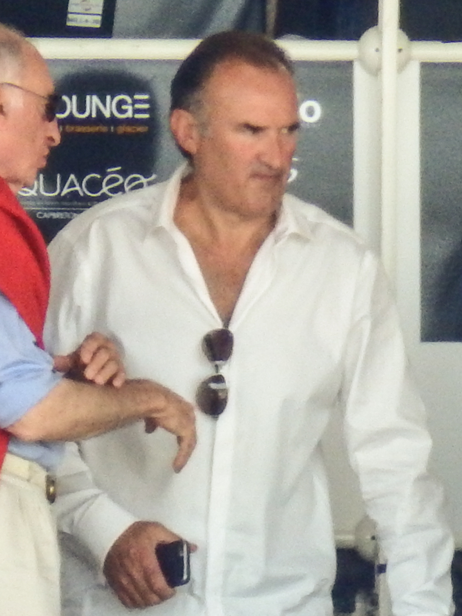 Pro D2 2015-2016 — 6 September 2015, Stade Maurice-Boyau. Match between: US Dax — Aviron Bayonnais Rugby Pro